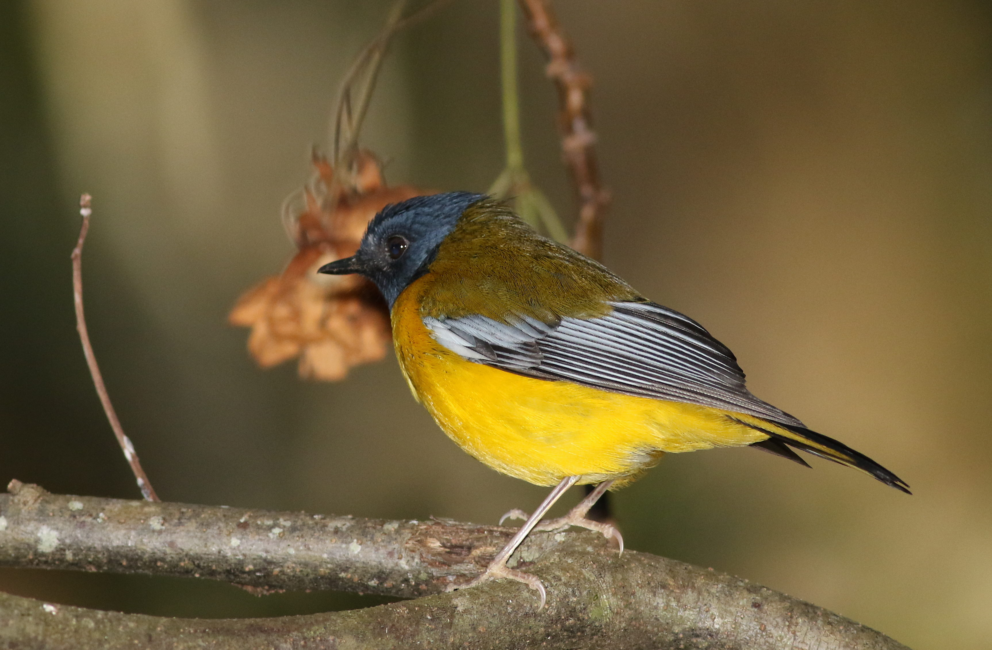 White-starred robin, Pogonocichla stellata, at Seldomseen, Vumba, Zimbabwe